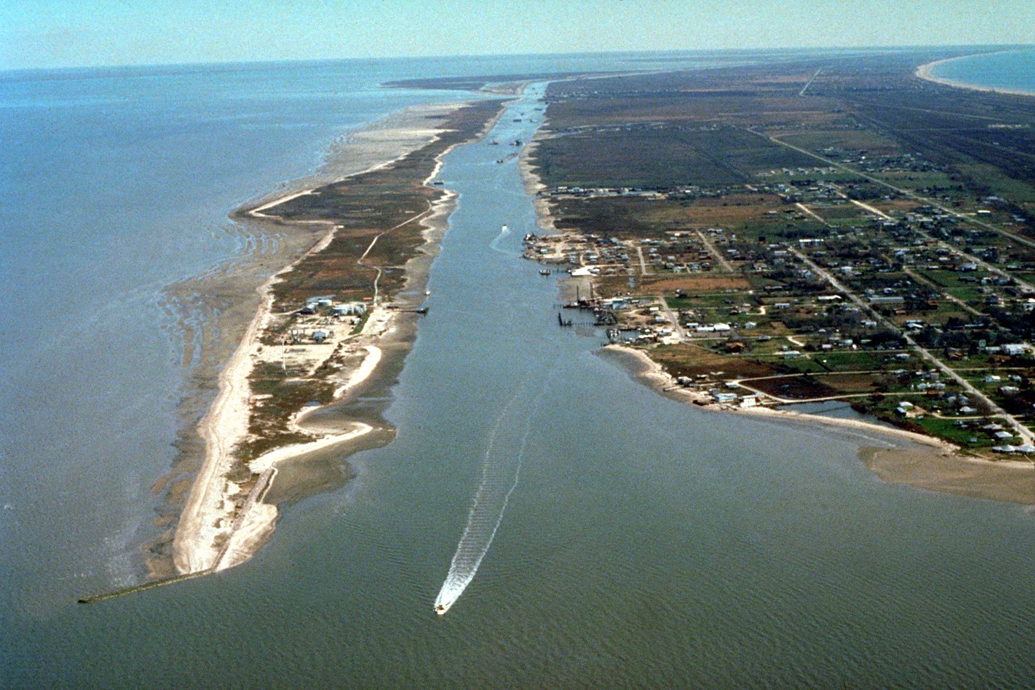 The Gulf Intracoastal Waterway enters Galveston Bay from the southwest end of the Bolivar Peninsula at the town of Port Bolivar, Galveston County, Texas, USA. The community of Port Bolivar lies at right at the end of the peninsula. Galveston Bay is the great body of water at left. A small piece of the Gulf of Mexico can be seen at upper right. The U.S. Army Corps of Engineers maintains and dredges the waterway for commercial barge navigation.